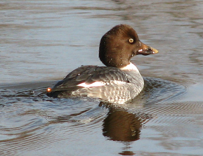 Common Goldeneye (Bucephala clangula), female, Rideau River, Ottawa, Ontario